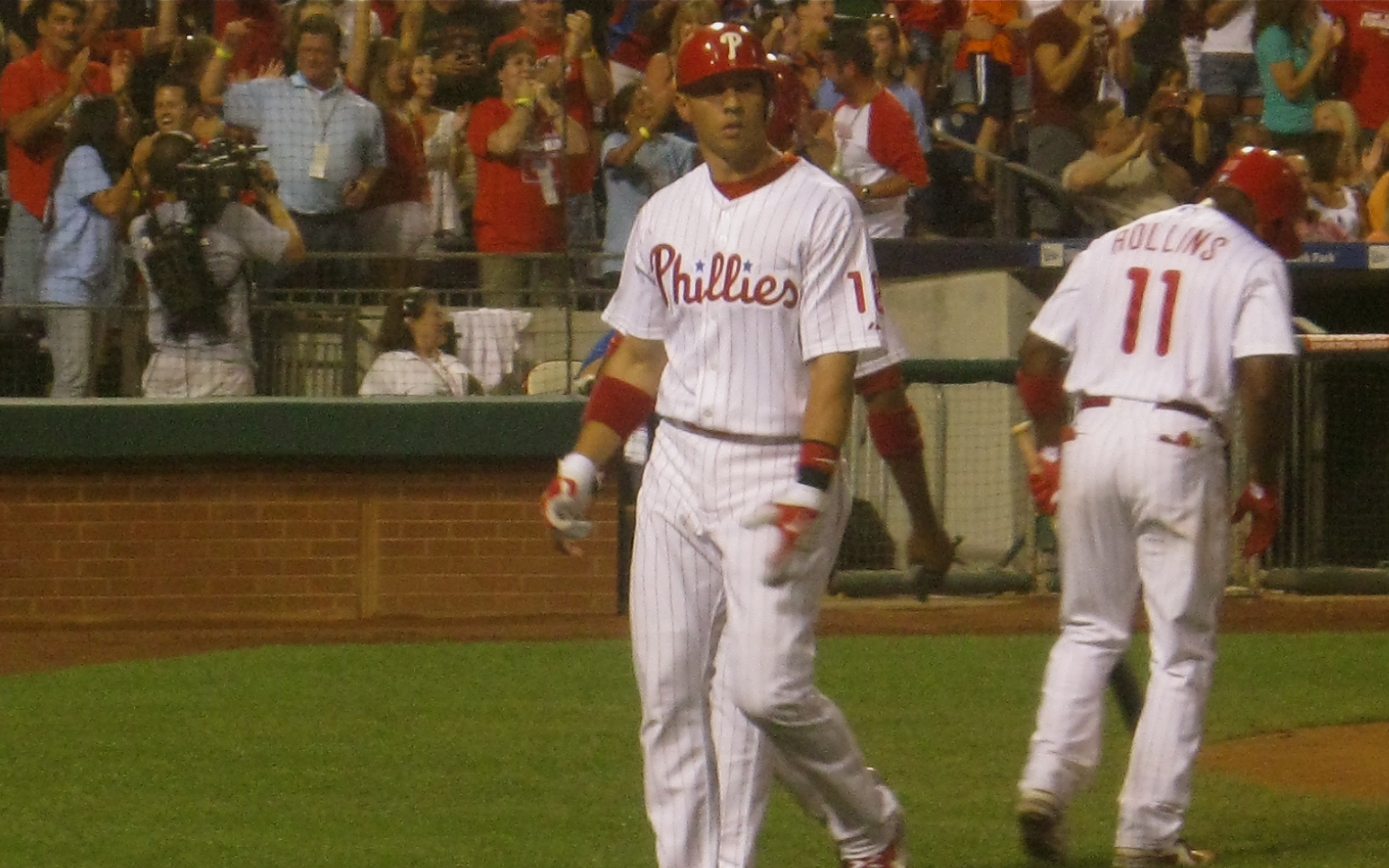 Cody Ransom